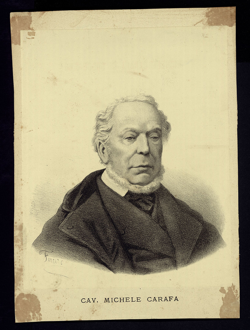 Portrait of Michele Enrico Carafa, composer (1787-1872).